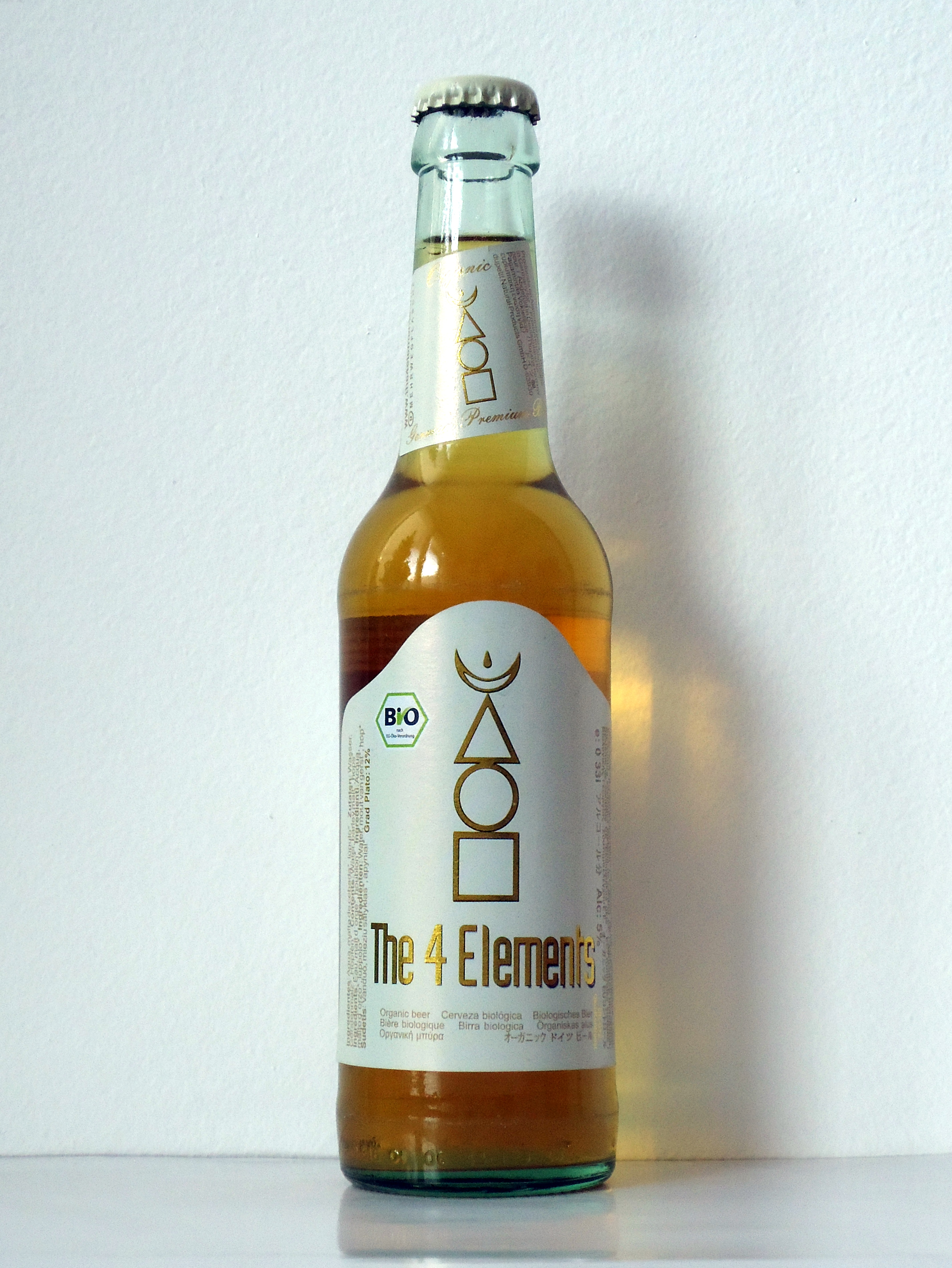 The 4 elements